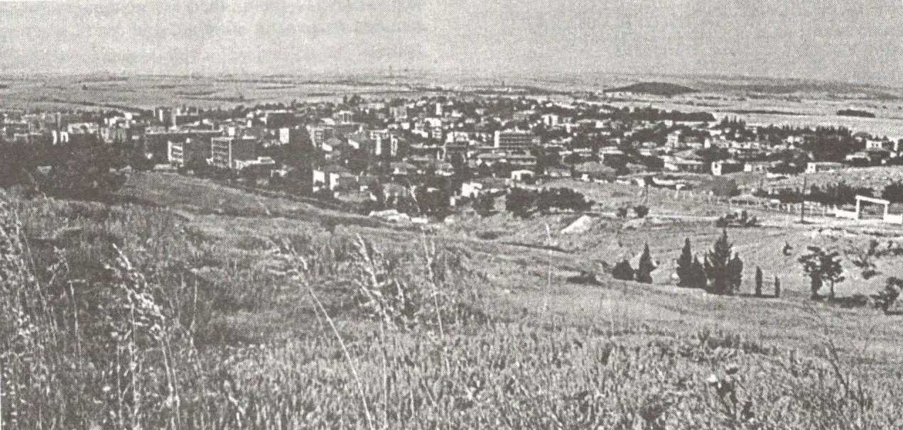 An older panoramic photo of the town of Kukus, aegean part of Macedonia